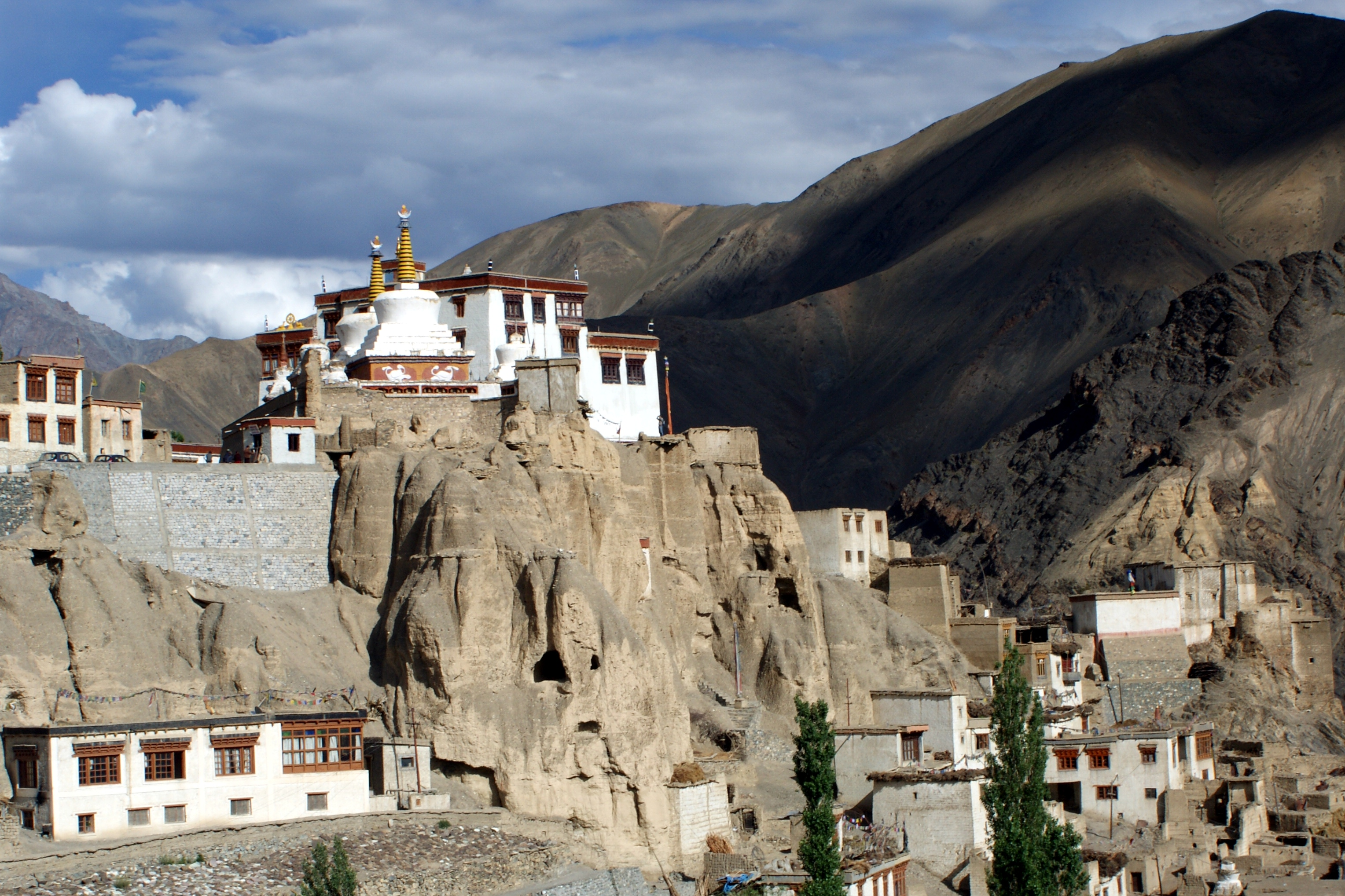 Lamayuru Gompa as seen from the west (see geotag)